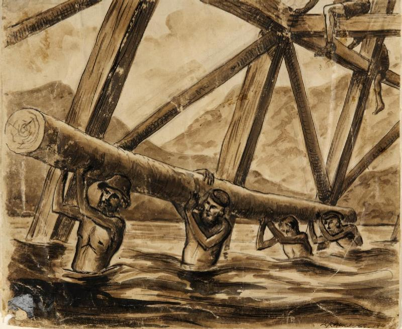 Bridge over the River Kwai image: four prisoners-of-war carry are large log across the River Kwai, waist deep in water. Behind and above them the wooden struts of the bridge are visible, with hills in the background.